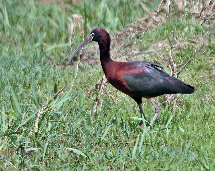 Glossy Ibis Plegadis falcinellus at Keoladeo National Park, Bharatpur, Rajasthan, India.